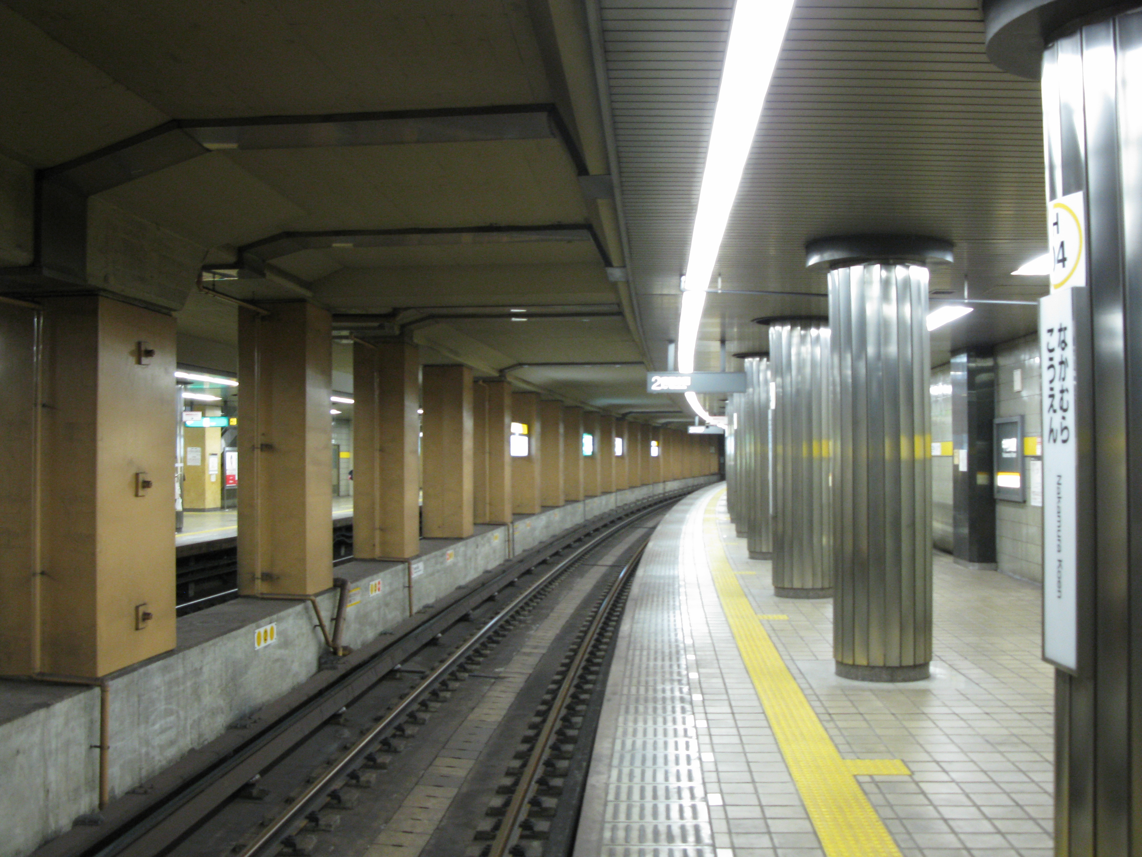 Nakamura Kōen Station platform (Nagoya Municipal Subway Higashiyama Line)